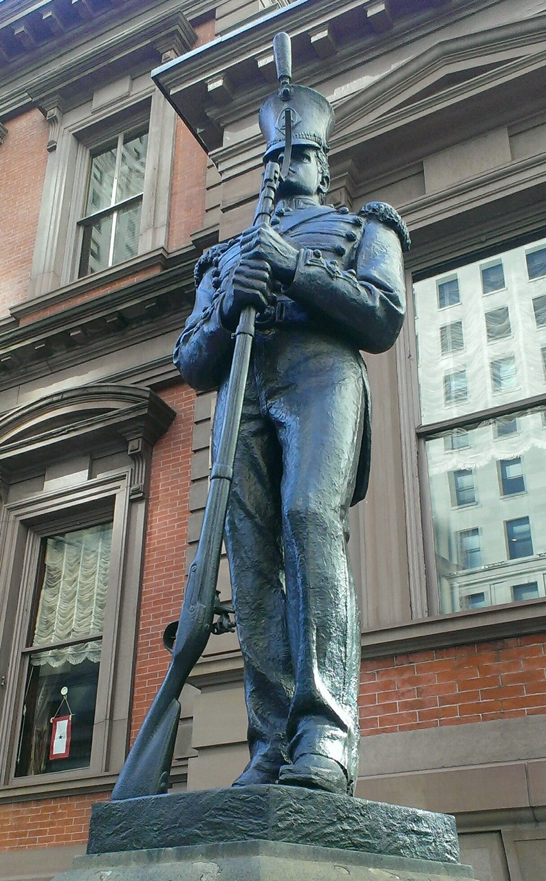 Washington Gray Monument, Philadelphia